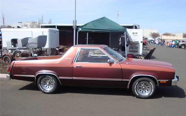 Ford Durango, circa 1980 model.